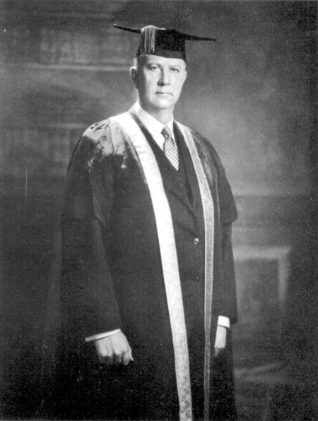 Principal Arthur Currie, 1920-1933